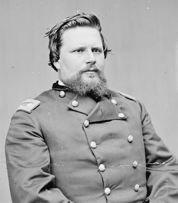 Colonel George Hay Covode, 4th Pennsylvania Cavalry Regiment, USA.